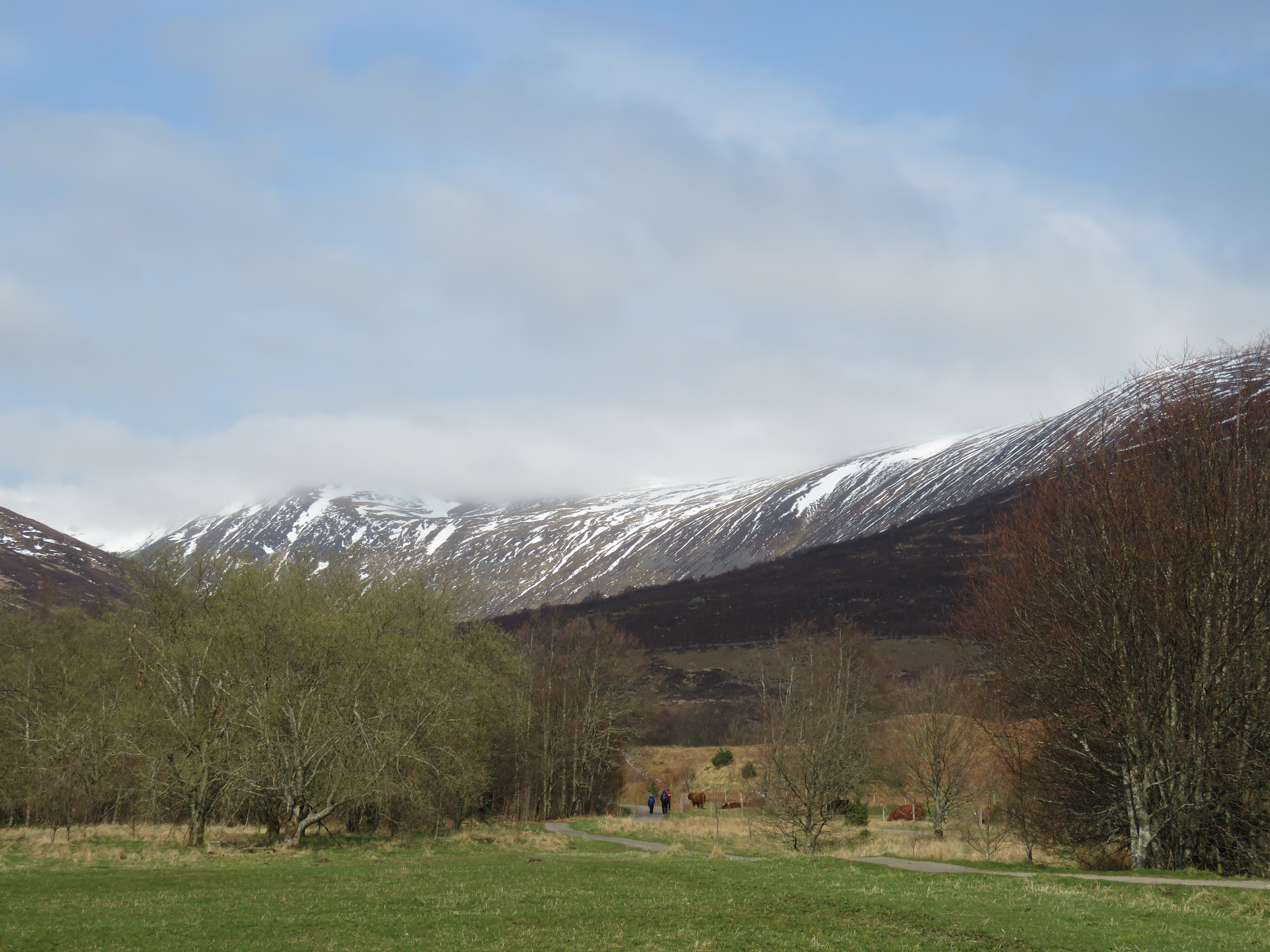 view of Creag Meagaidh National Nature Reserve from the entrance